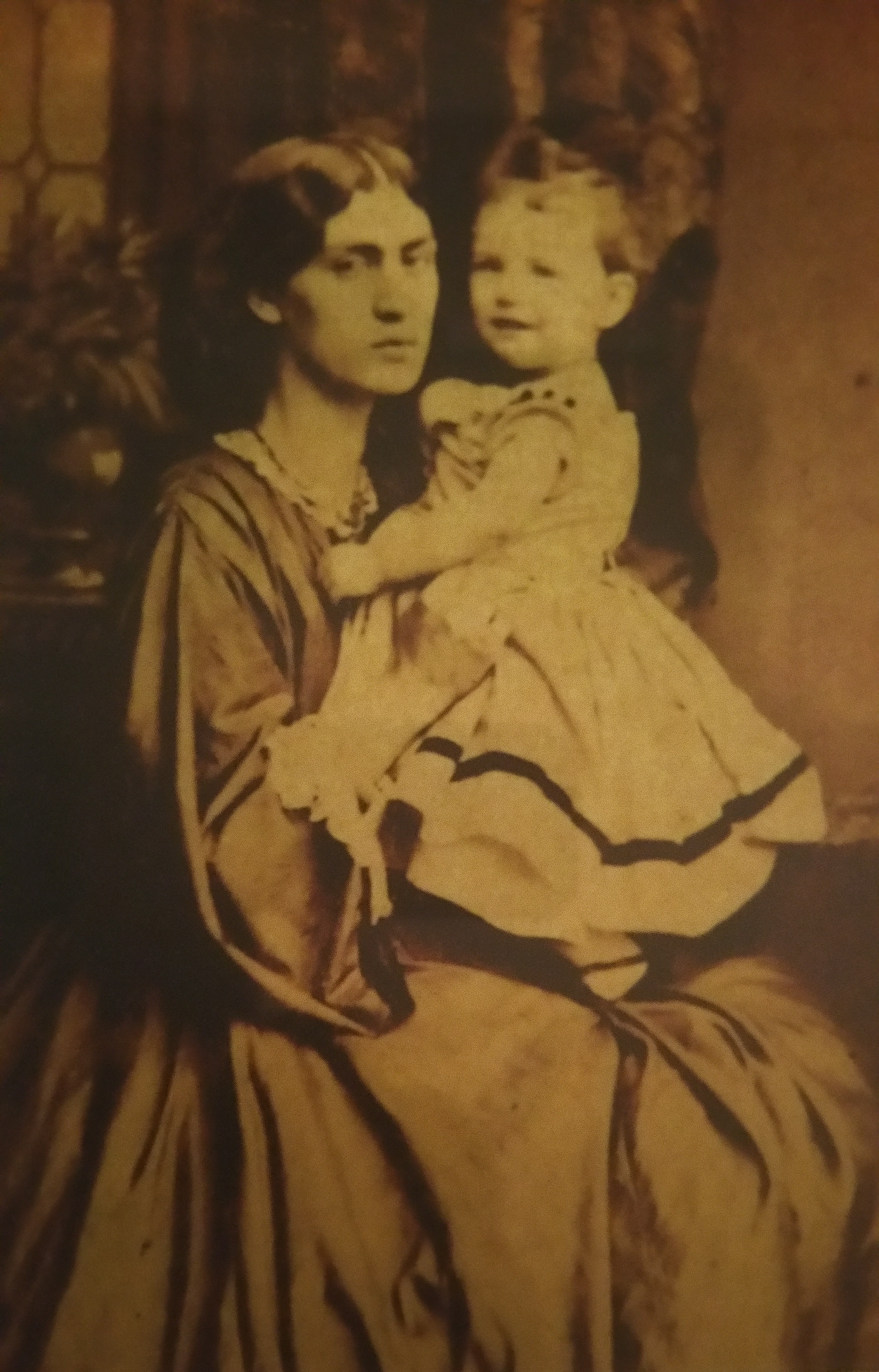 Jane and May Morris circa 1865, unknown photographer. Hangs at the William Morris Gallery, London.